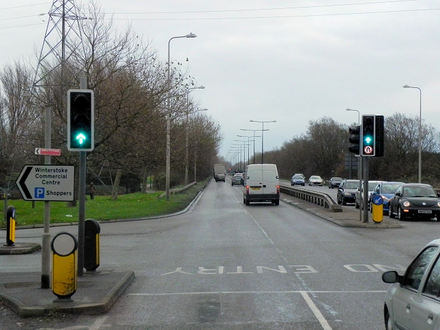 The A370 is a primary road which runs from Bristol to Weston-super-Mare and then on to East Brent (near Brent Knoll)